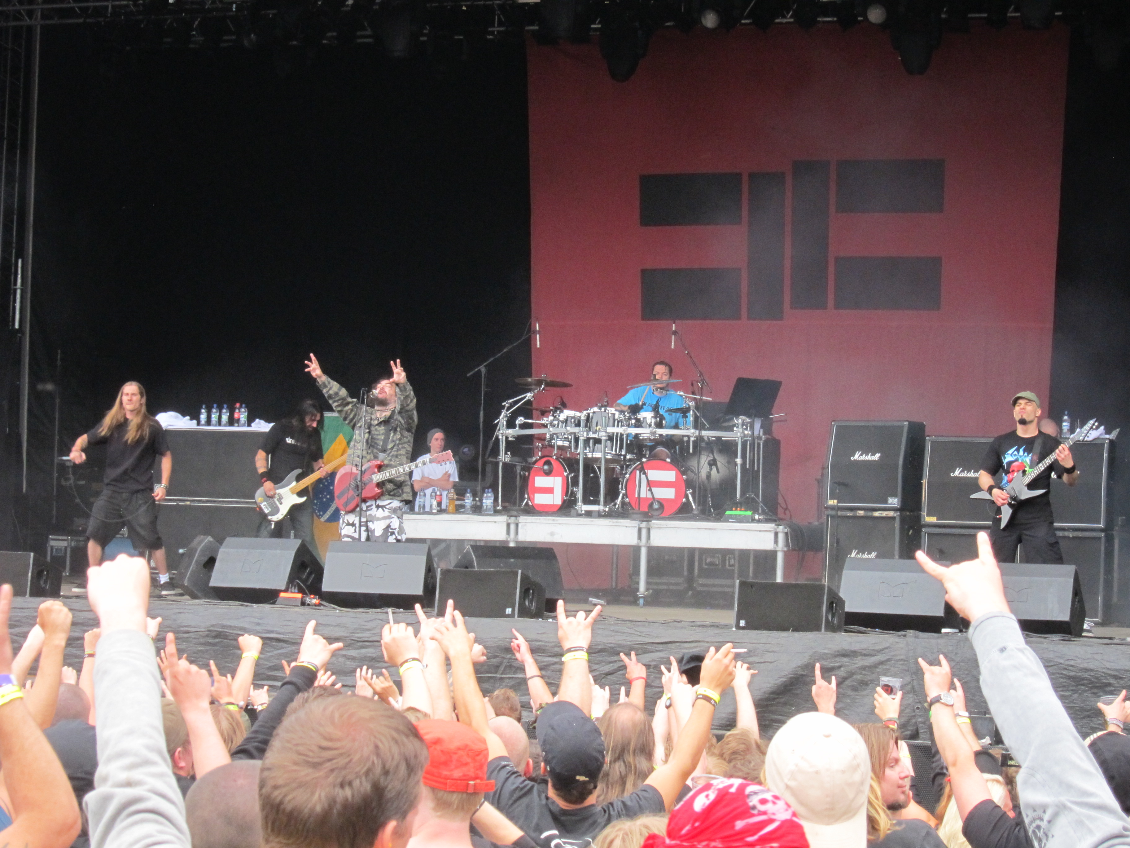 Cavalera Conspiracy performing live at Norway Rock Festival in July 2010